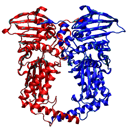 Dimer of the 43 KDa N-terminal fragment of DNA gyrase. The pore at the bottom is where DNA binding is thought to take place.